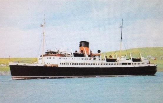 Postcard image of Mona's Isle approaching Douglas, Isle of Man.